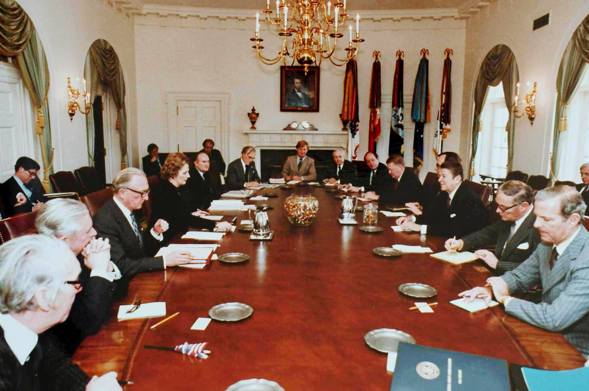 Ronald Reagan's Cabinet and Margaret Thatcher's Ministry meet in the White House Cabinet Room. A large jar of jelly beans sits prominently on the cabinet room table during Reagan's presidency.